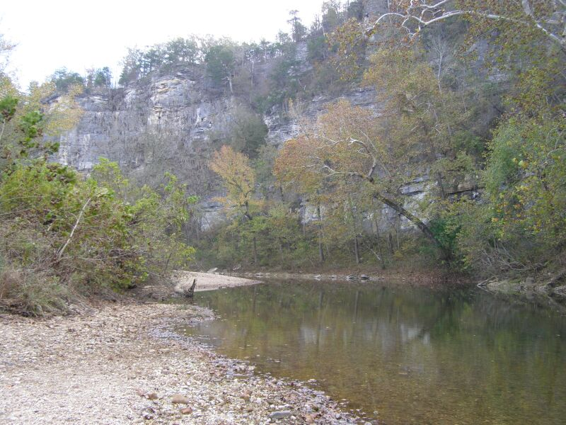 Pruitt Landing on the Buffalo River, Arkansas